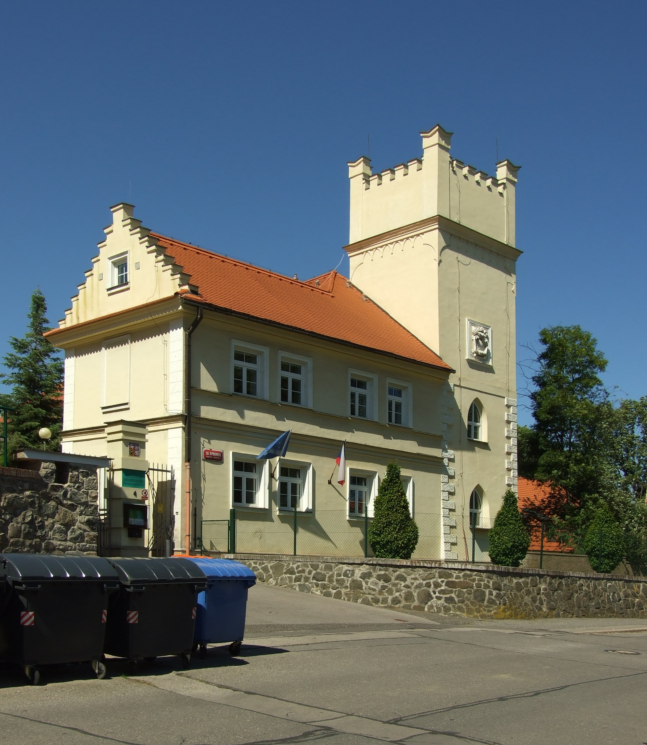 Motol, a part of Prague. Nature, houses and people of this part of Prague, CZhelp